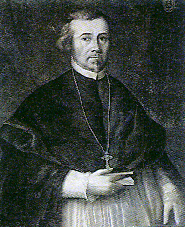 Tomás Crespo Agüera (1668-1742). Archbishop of Saragossa. Born in Rucandio, in Riotuerto (Cantabria, Spain)